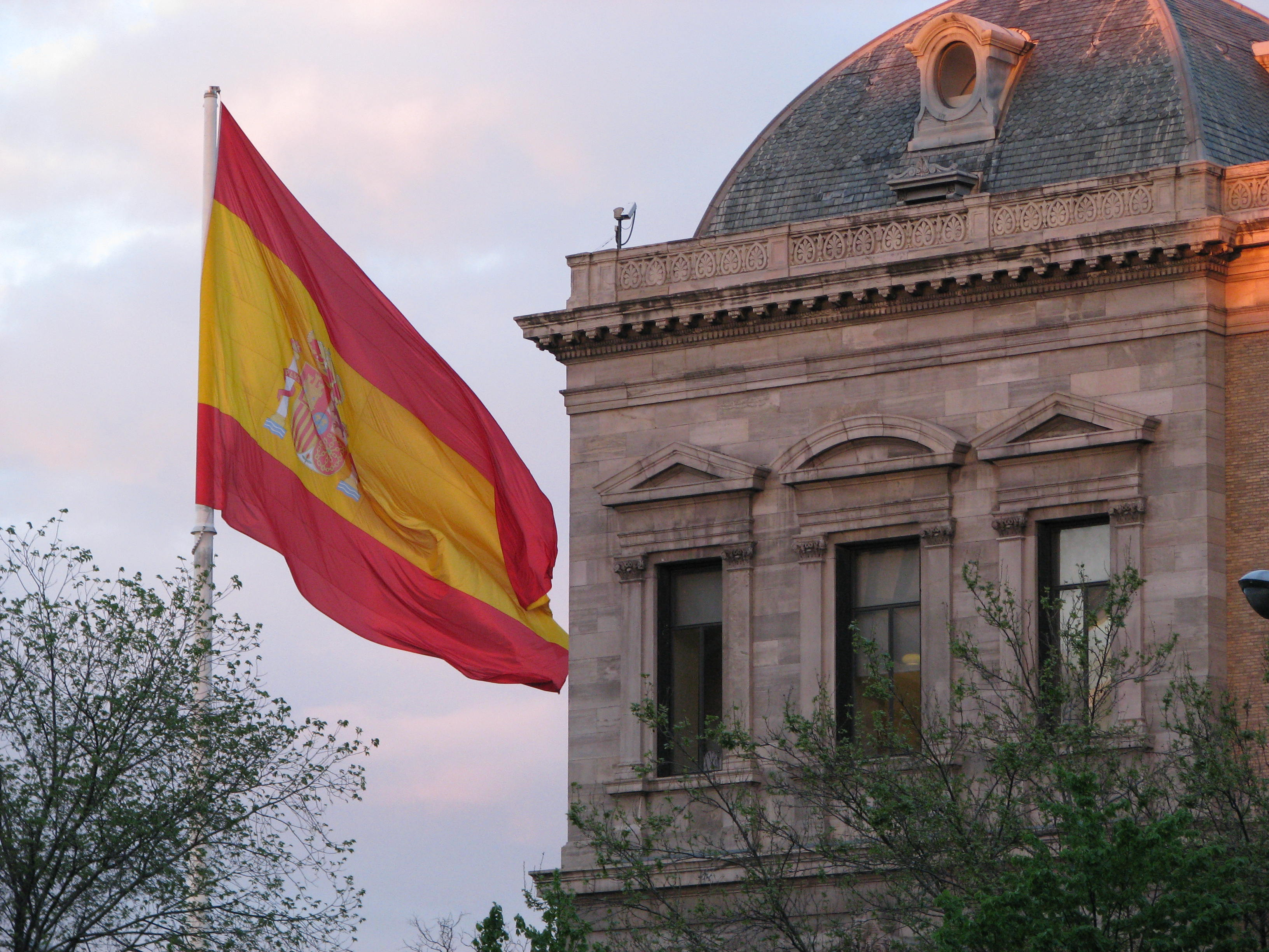 National flag of Spain at Plaza de Colón ("Columbus Square") in Madrid. At the right, the National Library.